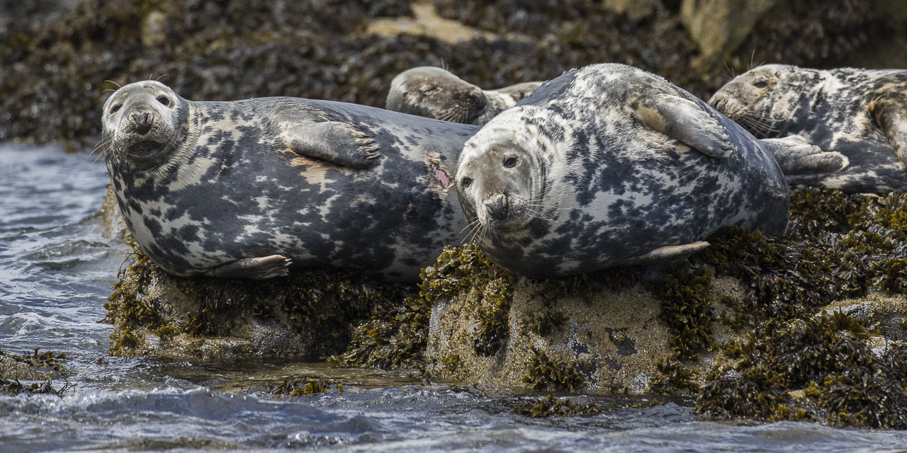 Grey Seal - Farne Is - FJ0A3780